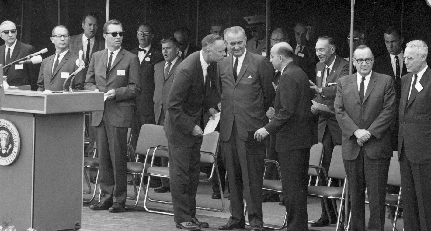 Lyndon B. Johnson at the groundbreaking for the University of California, Irvine in 1964. President Johnson stands at the center of the photo. A smiling Orange County Supervisor C.M. Featherly stands behind him. Chairman of the Board of Regents Ed Carter is on the right edge of the image. California Governor Edmund G. "Pat" Brown stands between Featherly and Carter.